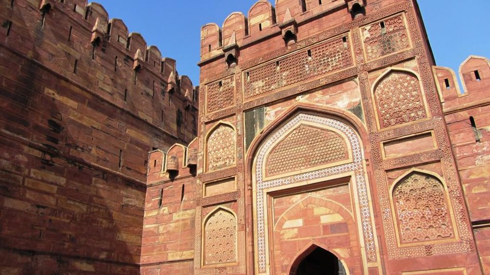 Agra Fort Including: Akbari Mahal